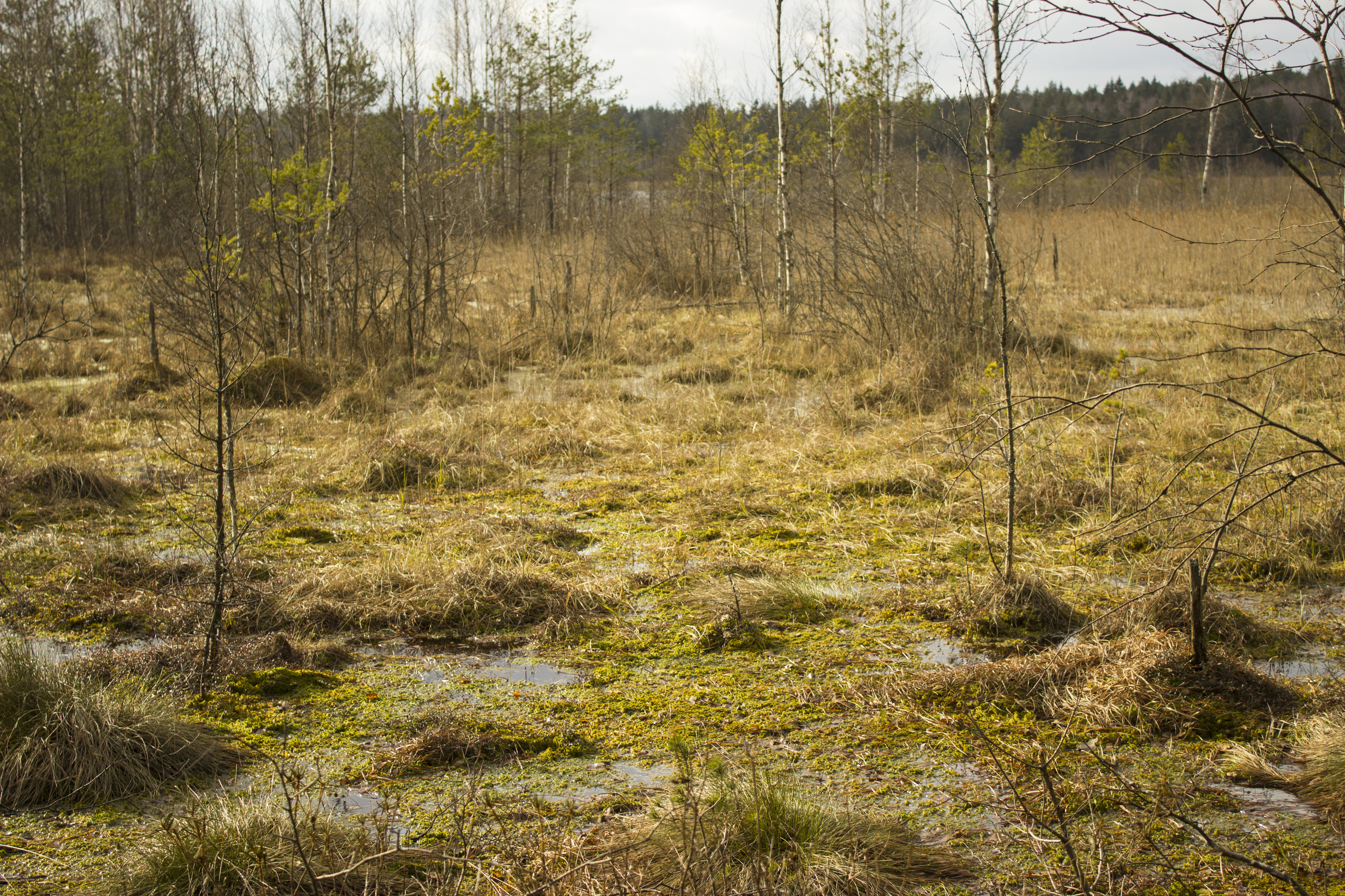 The marsh next to Seklis lake